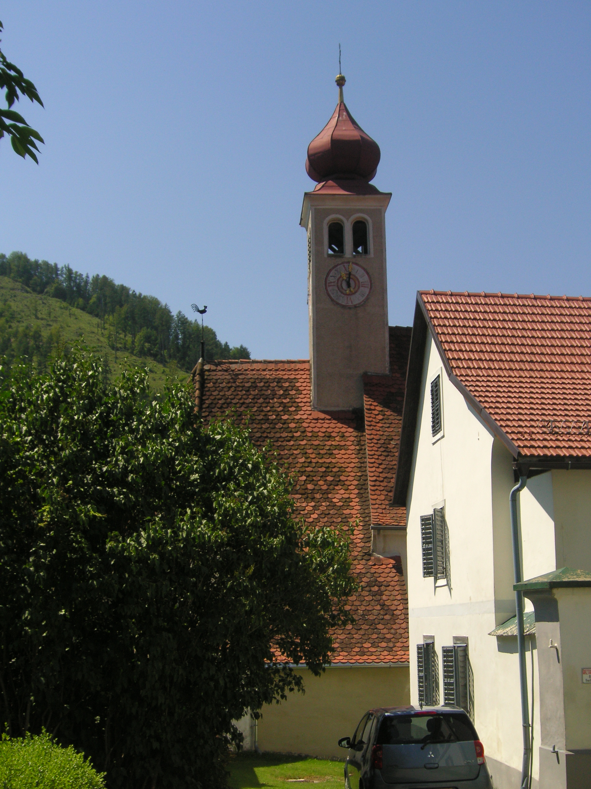 The church St. Michael in Übelbach, Styria, Austria